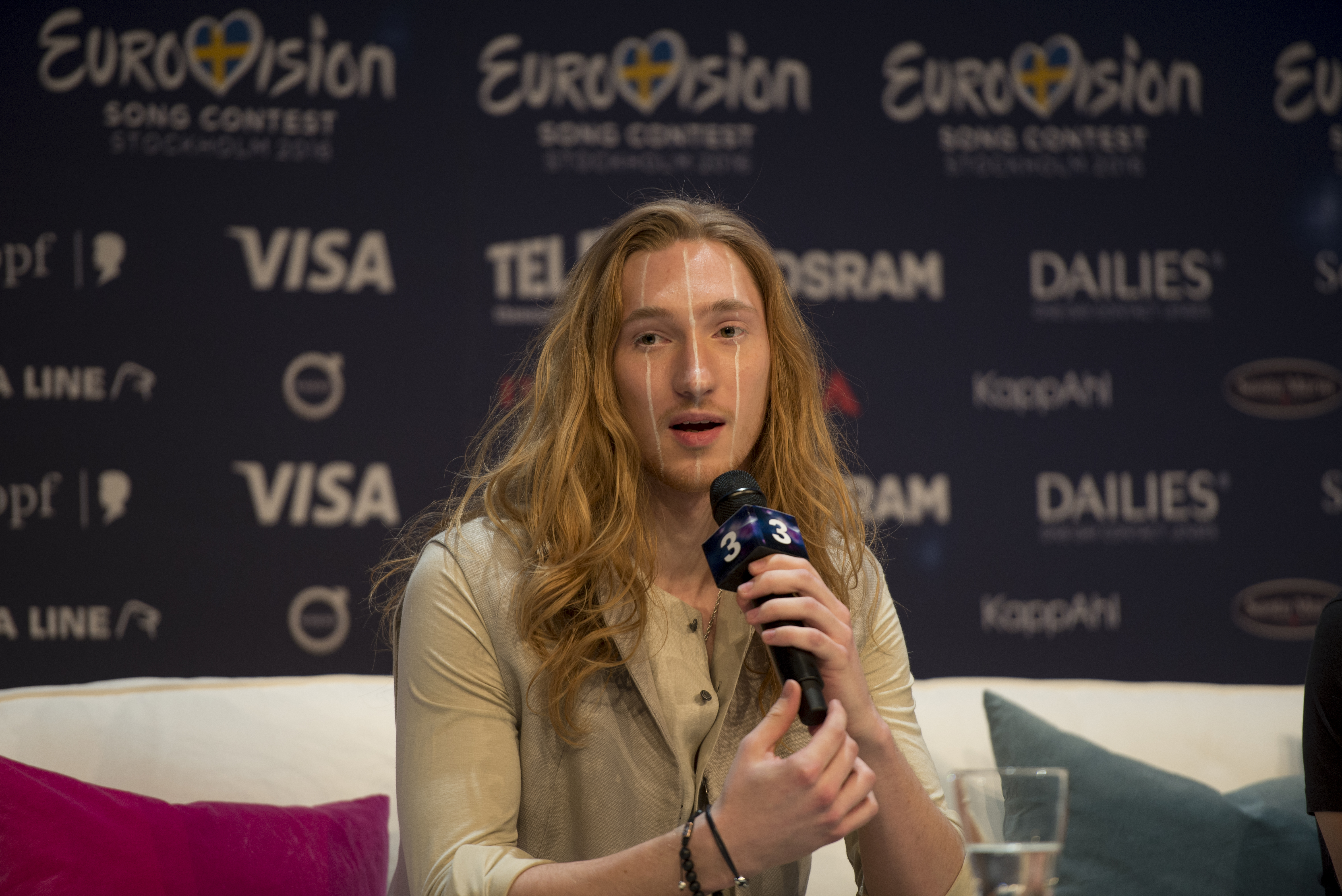 Ivan at a Meet & Greet during the Eurovision Song Contest 2016 in Stockholm. (Help translate this text)